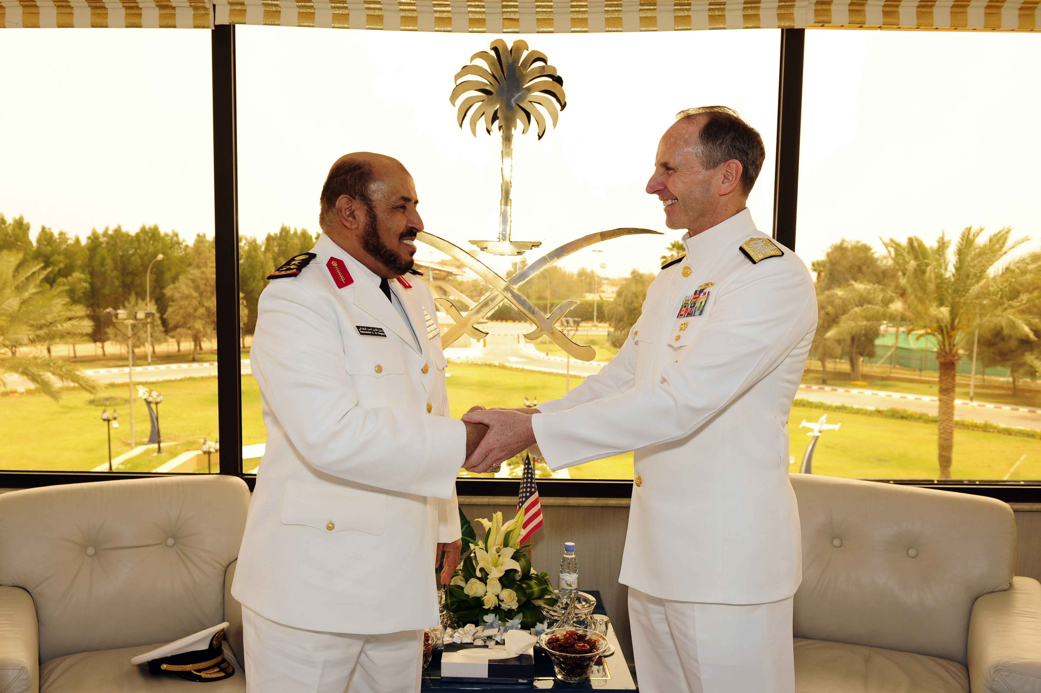 DHAHRAN, Saudi Arabia (March 27, 2012) Chief of Naval Operations (CNO) Adm. Jonathan Greenert shakes hands with Royal Saudi Naval Forces Chief of Naval Operations Vice Adm. Dakheel Allah Al-Wagdani during a meeting at the King Abdul Aziz Air Base. (U.S. Navy photo by Mass Communication Specialist 1st Class Peter D. Lawlor/Released) 120327-N-WL435-065